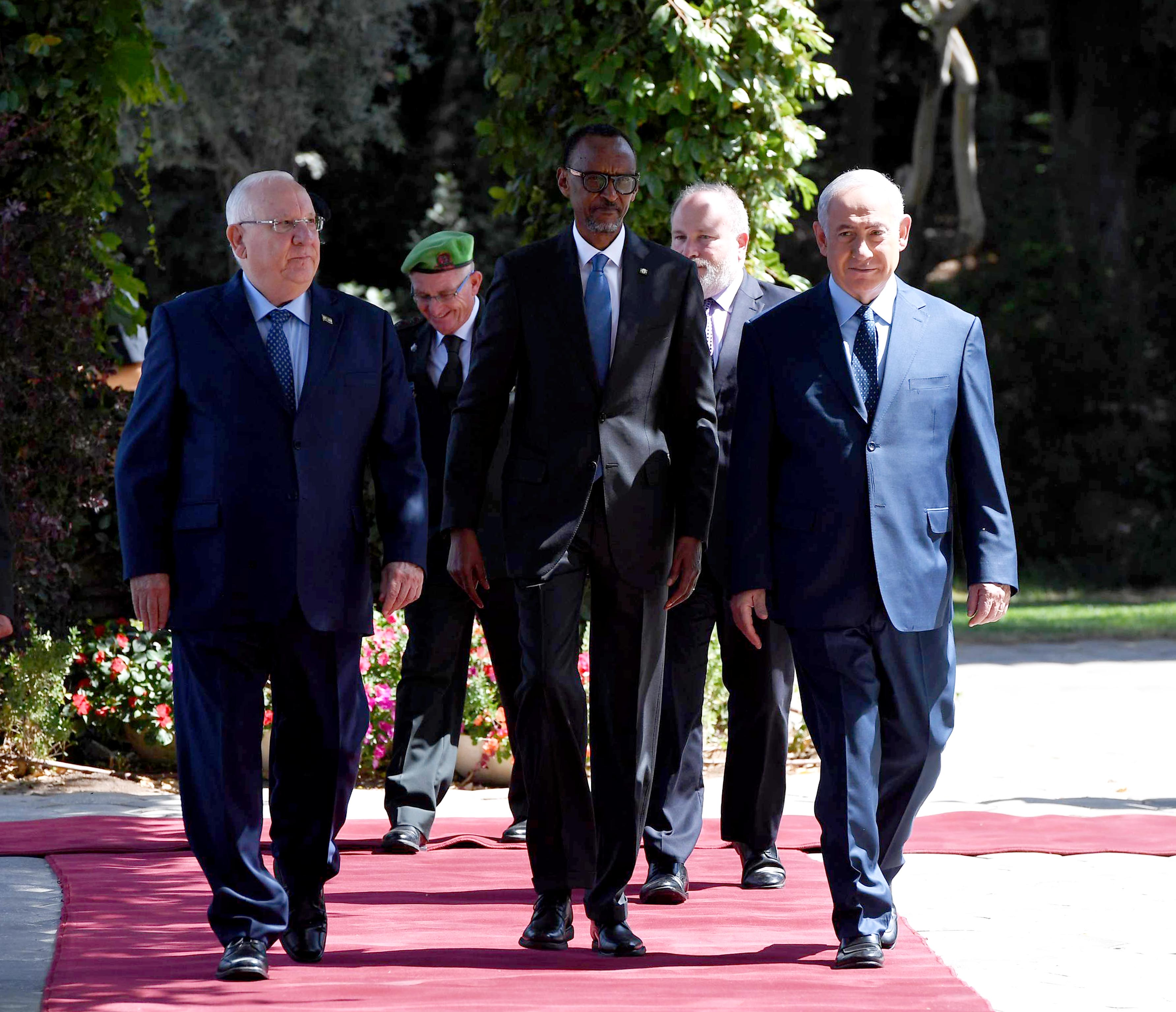 The President of the State of Israel, Reuven Rivlin, received the President of Rwanda together with Prime Minister Benjamin Netanyahu at Beit HaNassi, and held a working meeting with him. Monday, July 10, 2017.